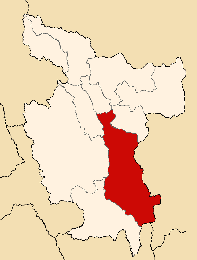 Location of the province Bella Vista in the San Martín region in Peru (Map)